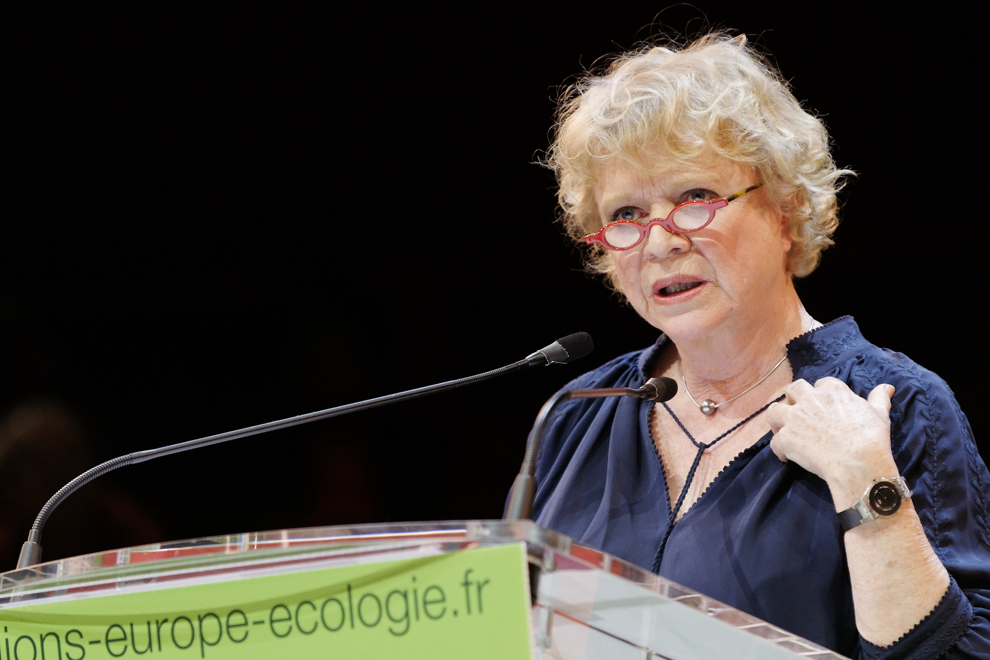 Eva Joly at Europe Écologie's closing rally of the 2010 French regional elections campaign at the Cirque d'hiver, Paris.